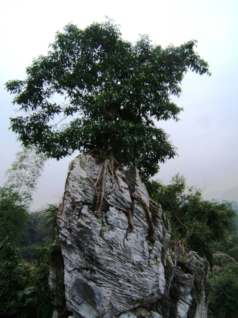 Tree on Top of limestone peak in Cao Banh village, Phuong Thien commune, Ha Giang province, Vietnam.